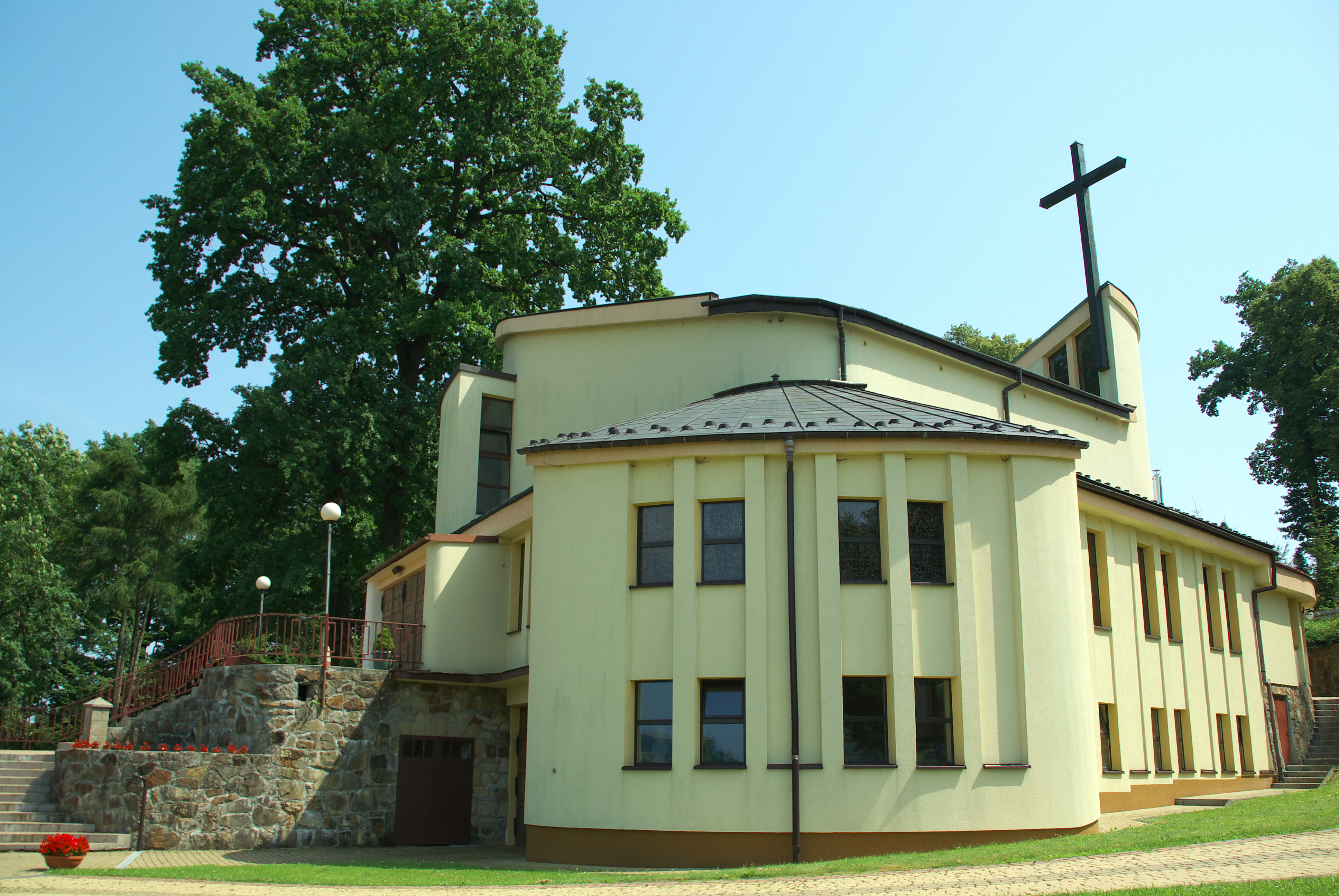 Church of the Nativity of Mary in Sanok